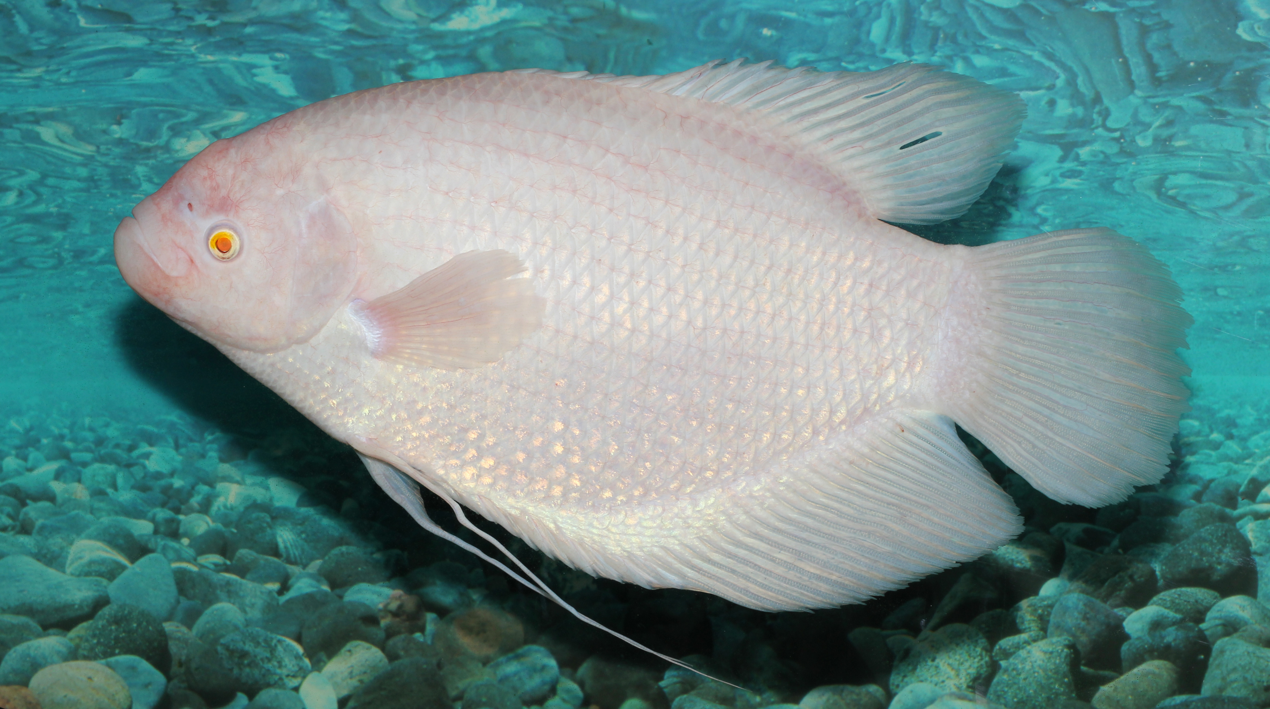 Giant gourami (Osphronemus goramy), albino.